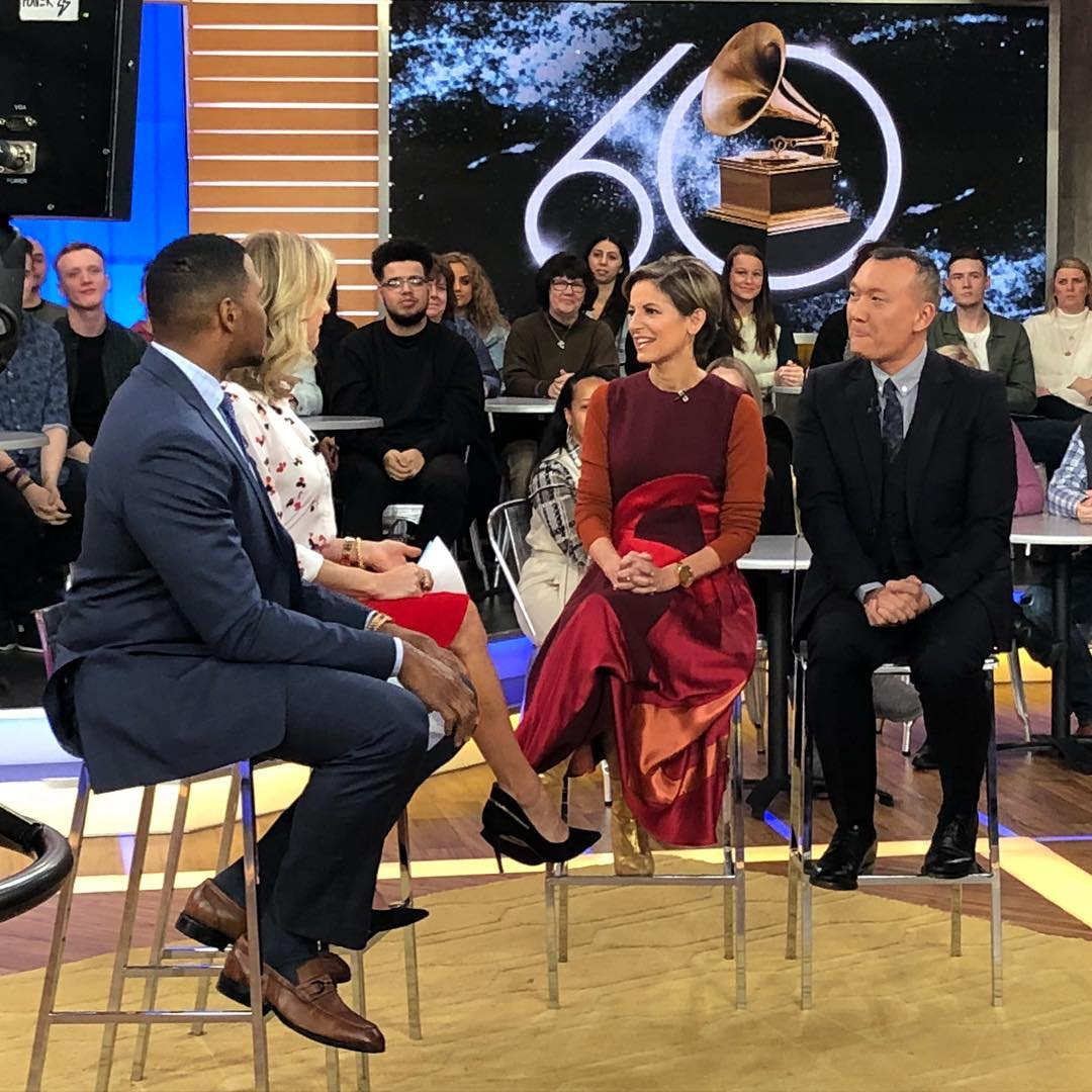 Cindi Leive appearing on Good Morning America to talk about Grammy Awards best fashion moments